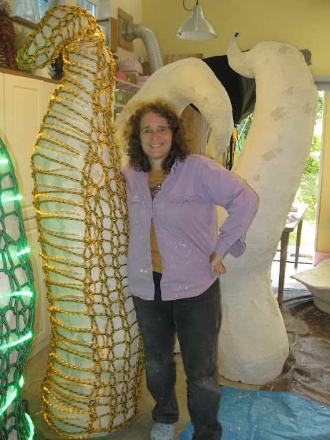 Carol Milne in studio working on Grow Lights